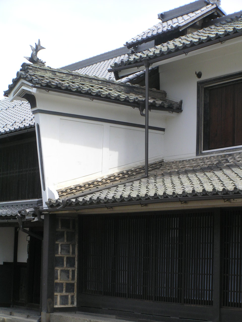 sode-udatsu,unno-syuku 袖うだつ－海野宿